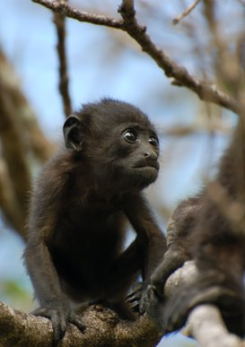 © Leonardo C. Fleck